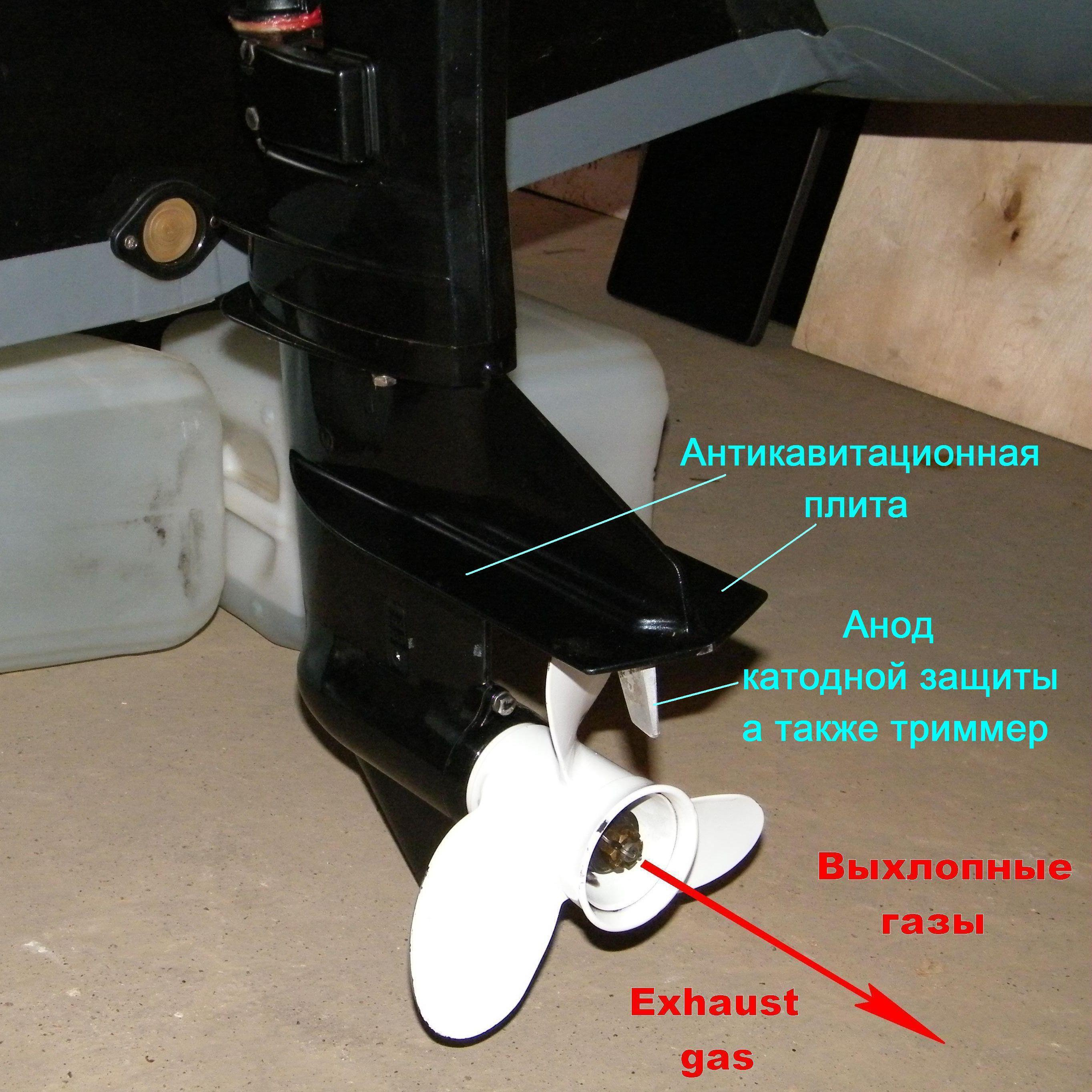 Outboard motors